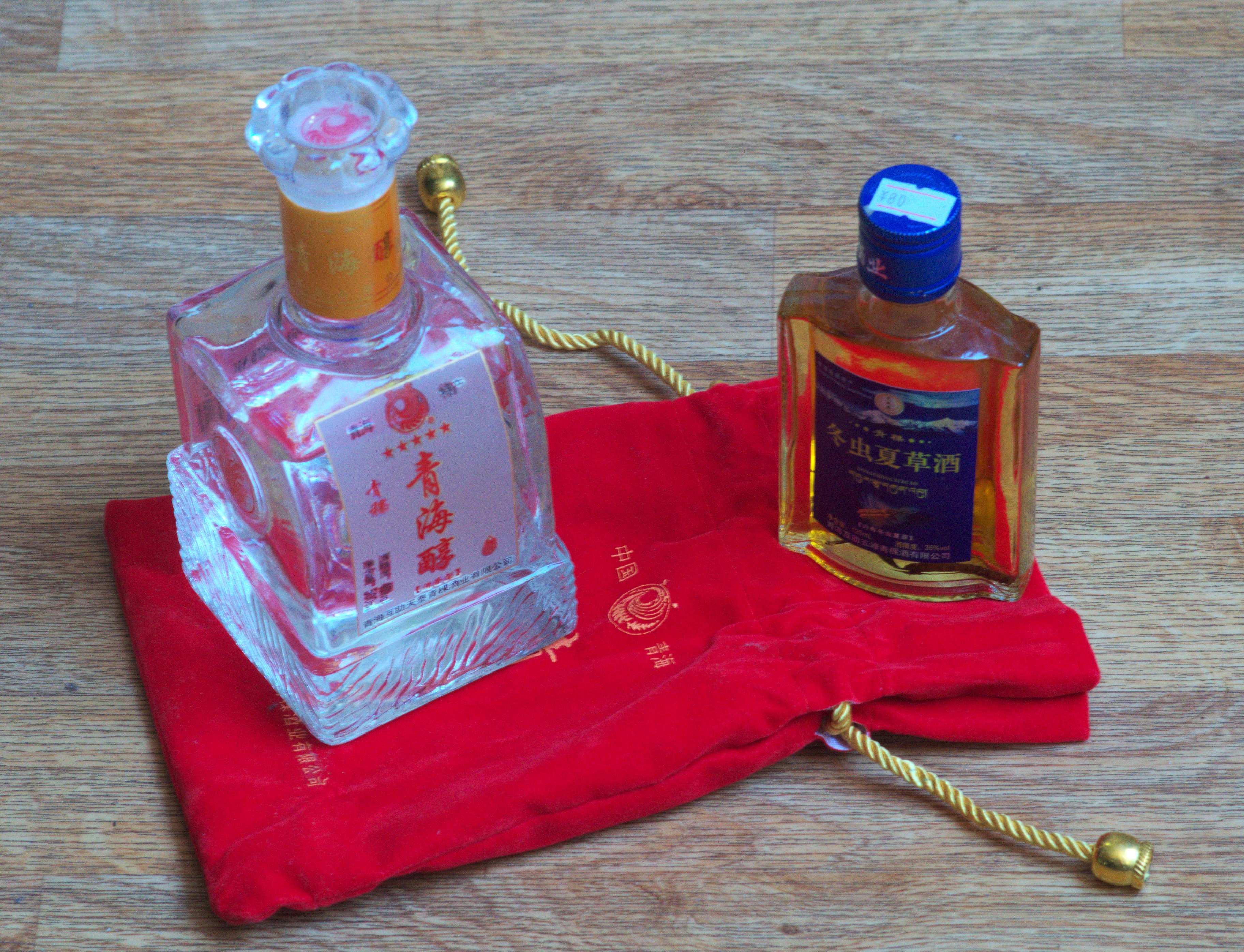 Two highland barley alcohols from Qinghai province. Left one is 46 % Qingke jiu (青课酒). Right one, is 35 % Dongchong xiacao jiu (冬虫夏草酒), qingke jiu with caterpillar fungus (Tibetan: yarsa gumbu (དབྱར་རྩྭ་དགུན་འབུ་)